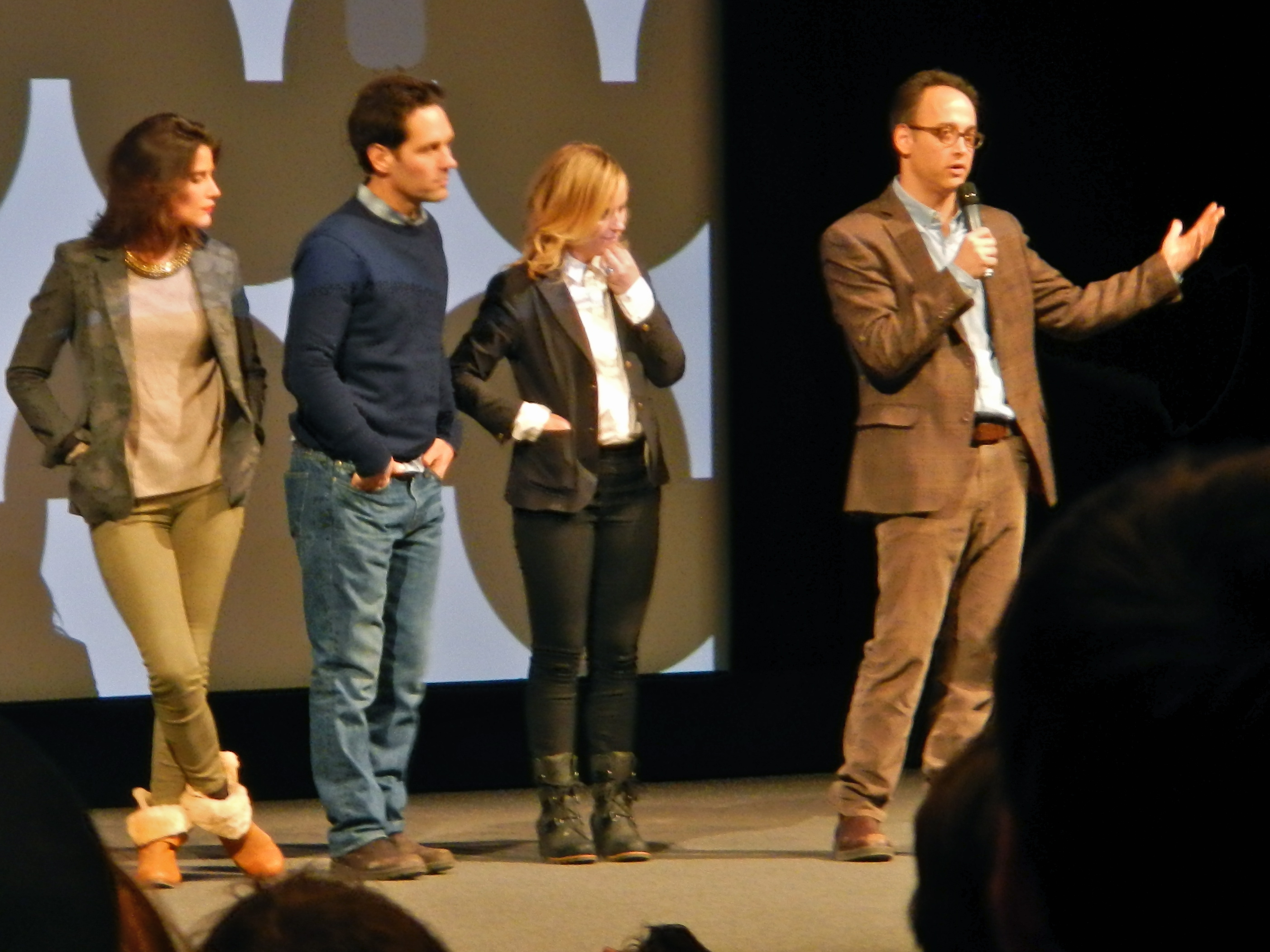 "They Came Together" at Sundance 2014 (depicting Cobie Smulders, Paul Rudd, Amy Poehler and David Wain)